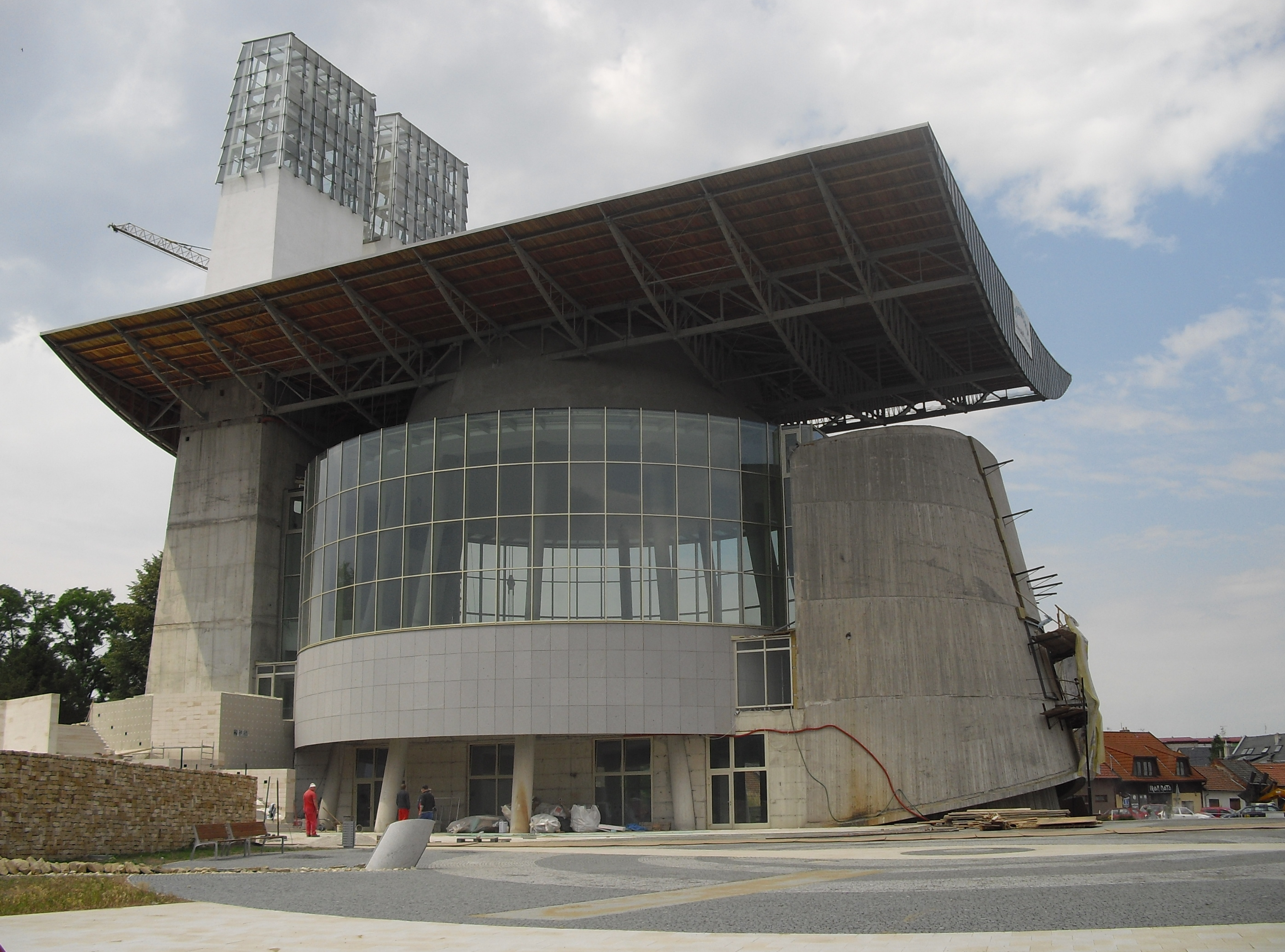 Staré Město in Uherské Hradiště District, Czech Republic. Construction of the Church of the Holy Spirit, june 2014.